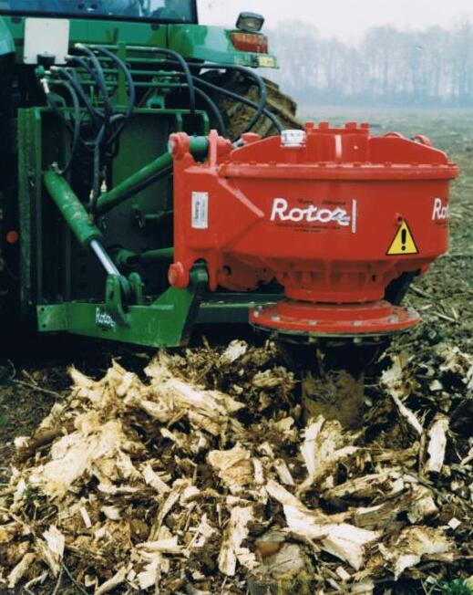 Vertical stump grinder at work.